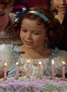 Cropped version: Screenshot from a public domain film The Little Princess (1939) starring Shirley Temple and Richard Greene